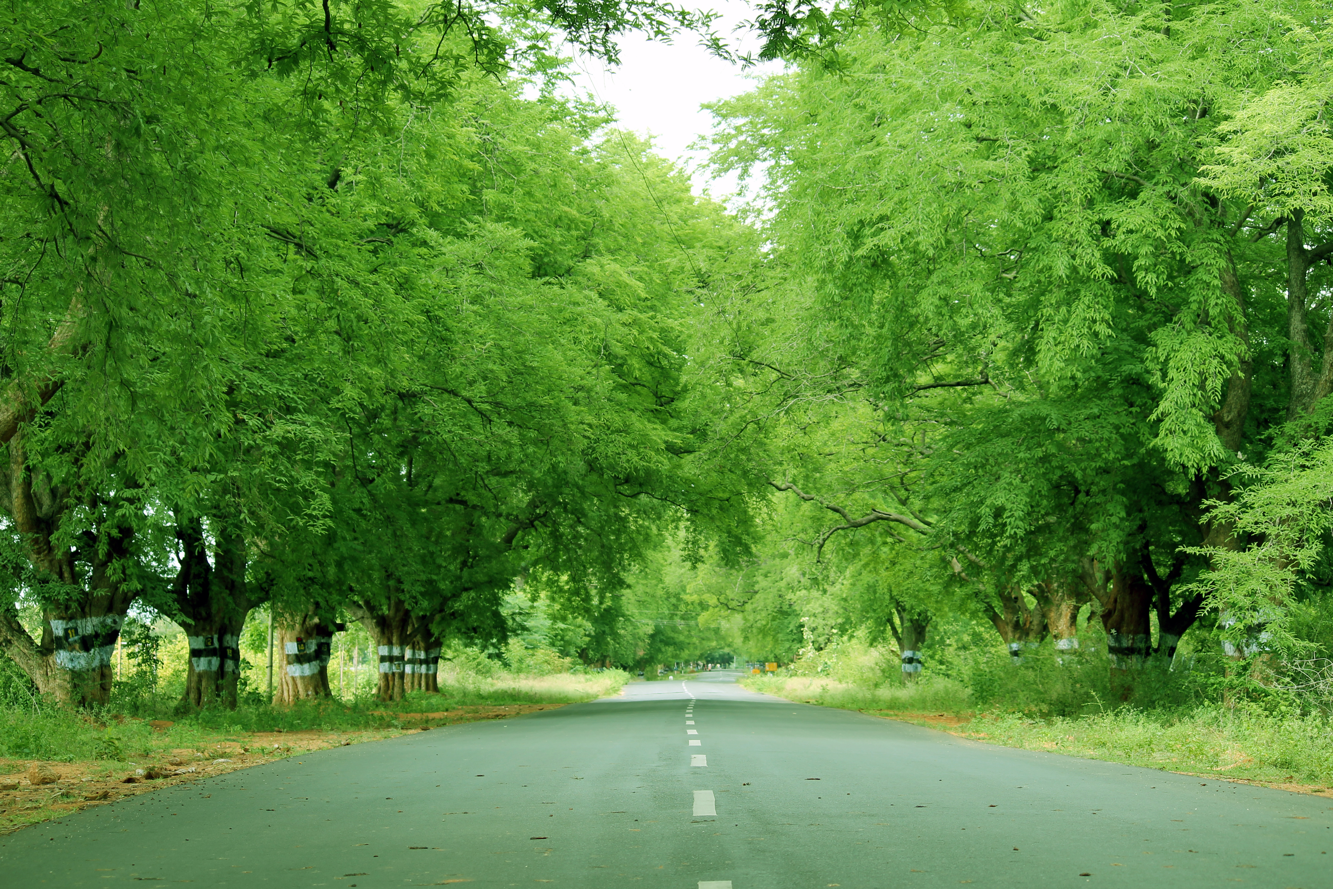 Tamarind trees planted on either side of a state highway. Alangayam, Tamilnadu, India.